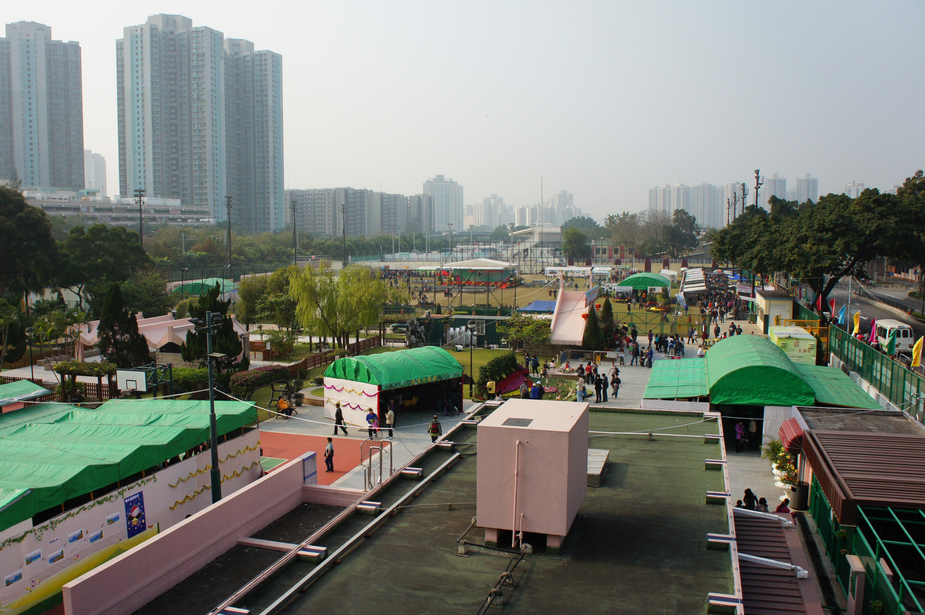 North District Flower Bird Insect and Fish Show, Fanling, New Territories, Hong Kong.